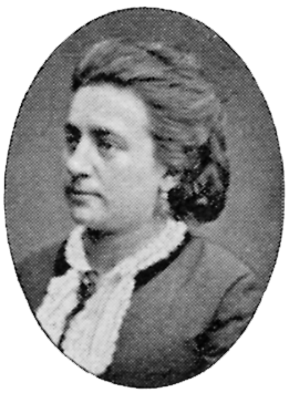 Image scanned from the book "Svenskt Porträttgalleri XX - Arkitekter, Bildhuggare, Målare m.fl. " ("Swedish Portrait Gallery XX - Architects, Sculptors, Painters, ") published 1901